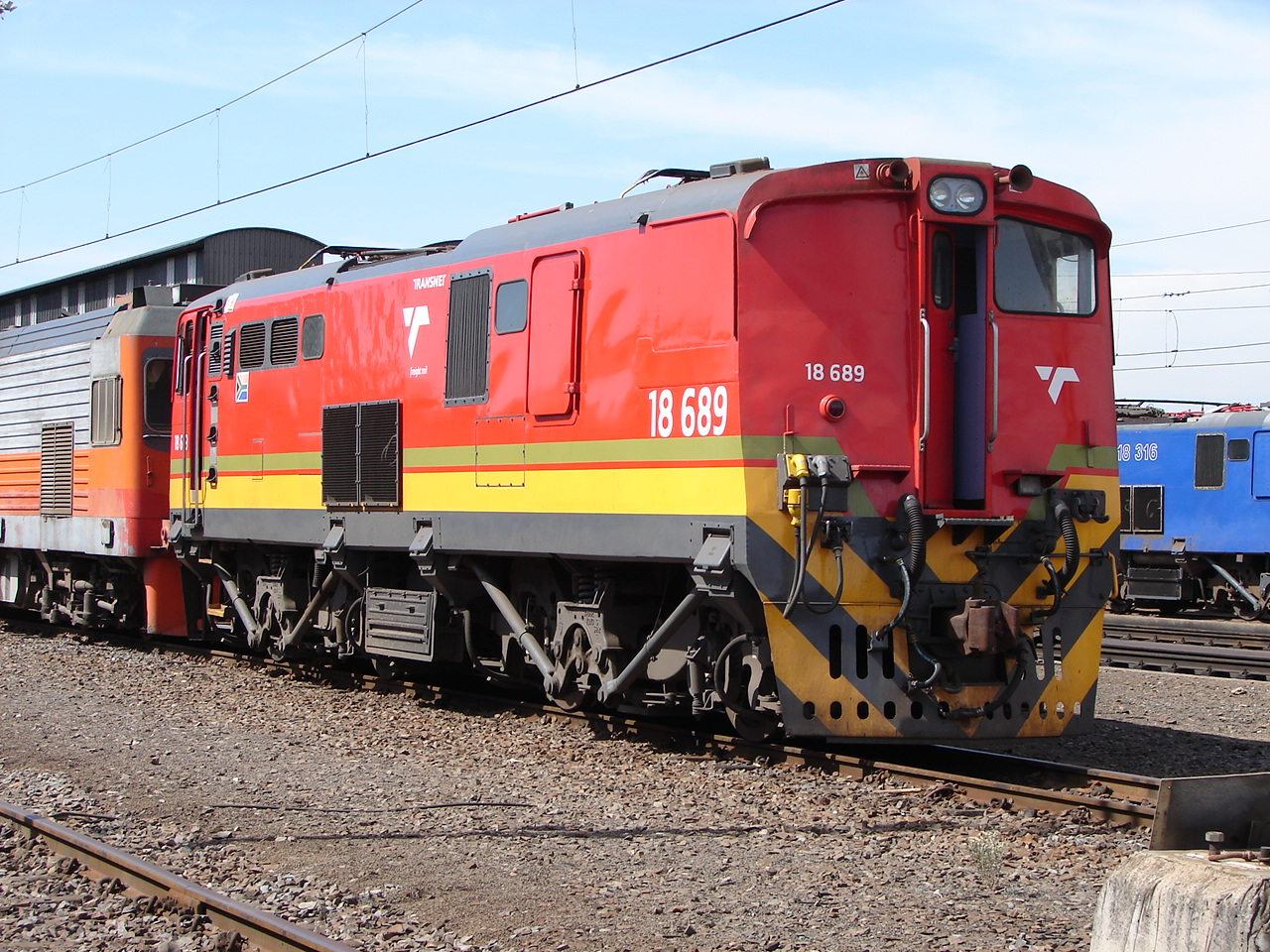 TFR Class 18E Series 2 18-689Location: Bellville Depot, Cape TownHistory: Rebuilt in 2012 from Class 6E1 Series 3 E1390